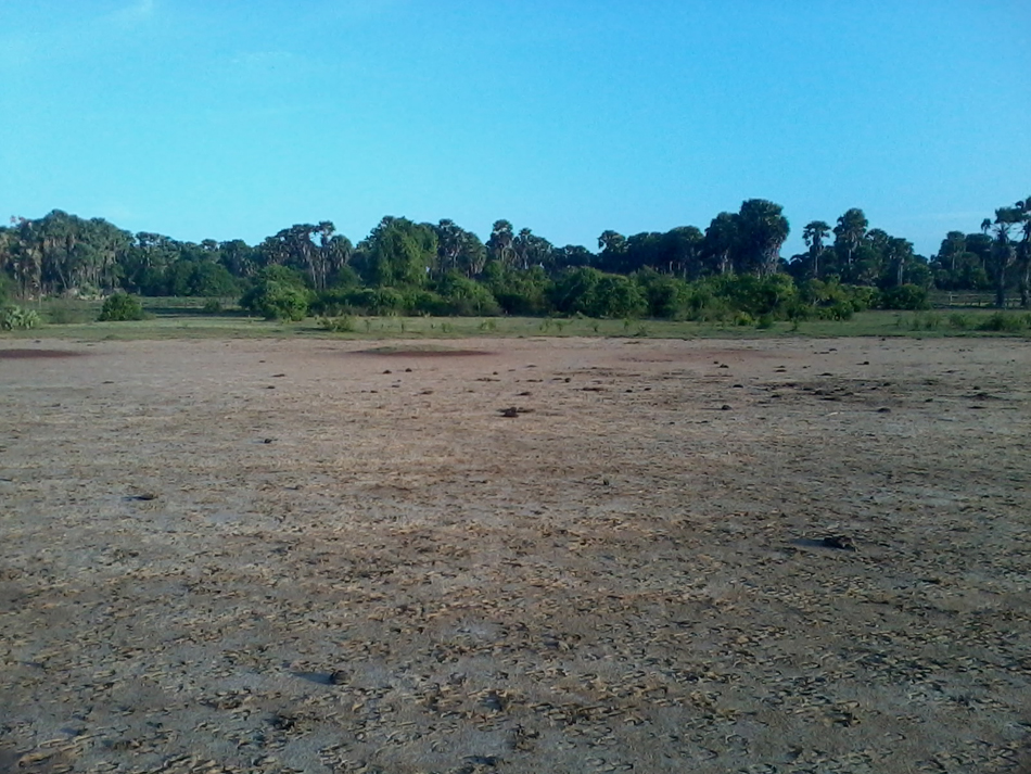 Kumulamunai in Mullaitivu